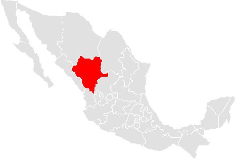 A map of the mexican state of durango made by me